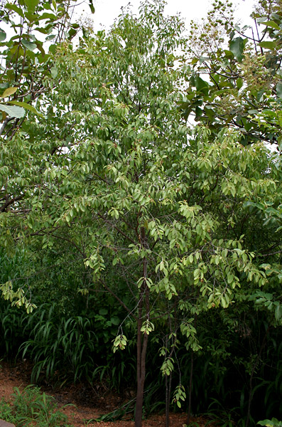 White or East Indian Sandalwood or Chandan Santalum album in Hyderabad , India.